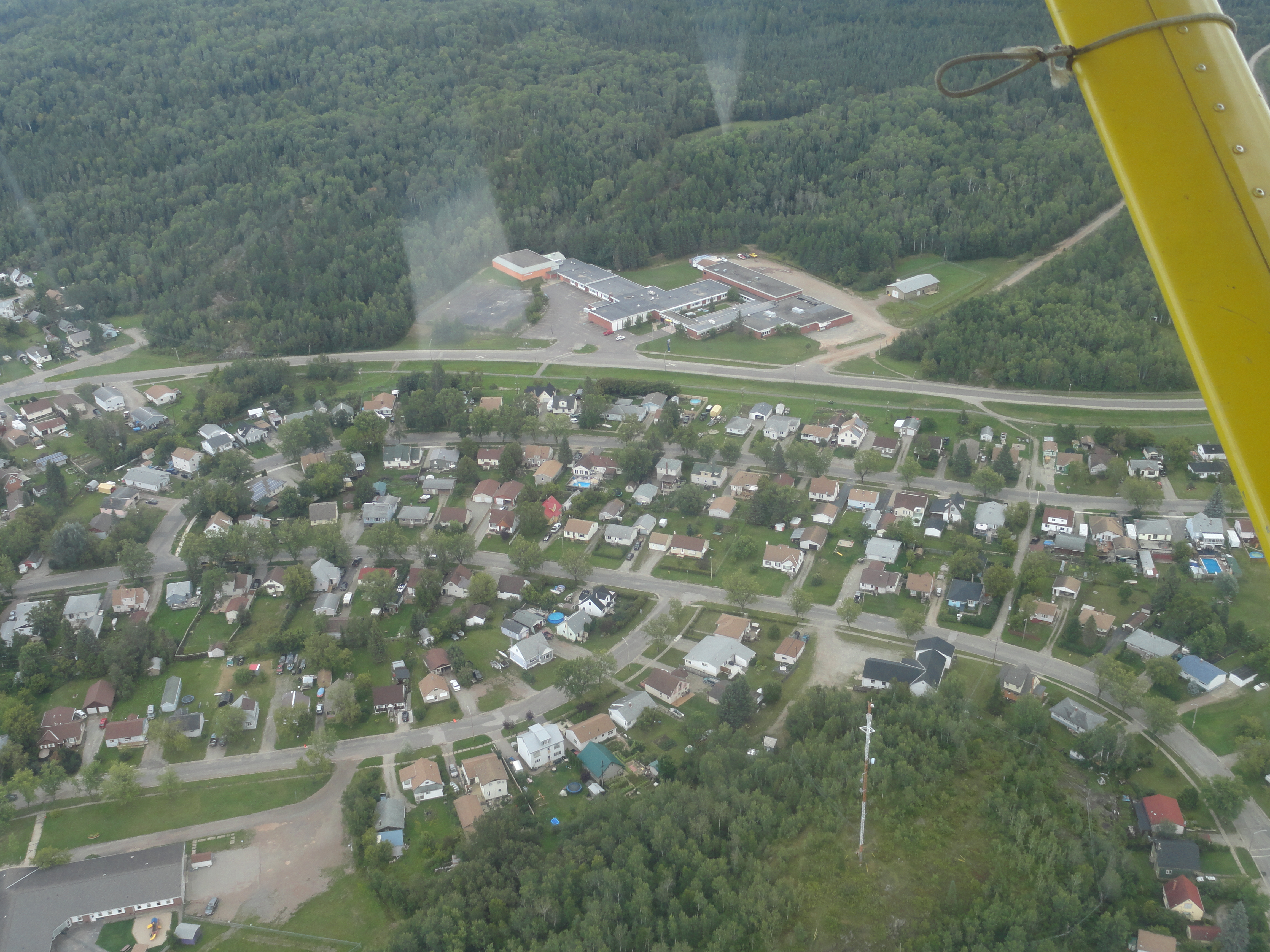 Atikokan High School, as seen from the air!